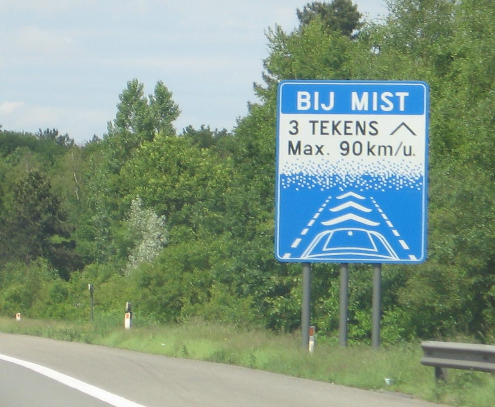 Belgium - warning sign distance keeping at fog